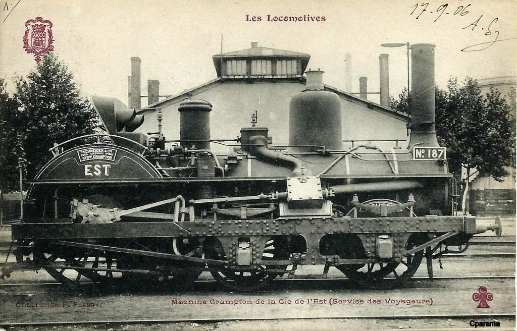 Locomotive Crampton 4-2-0 Est 187